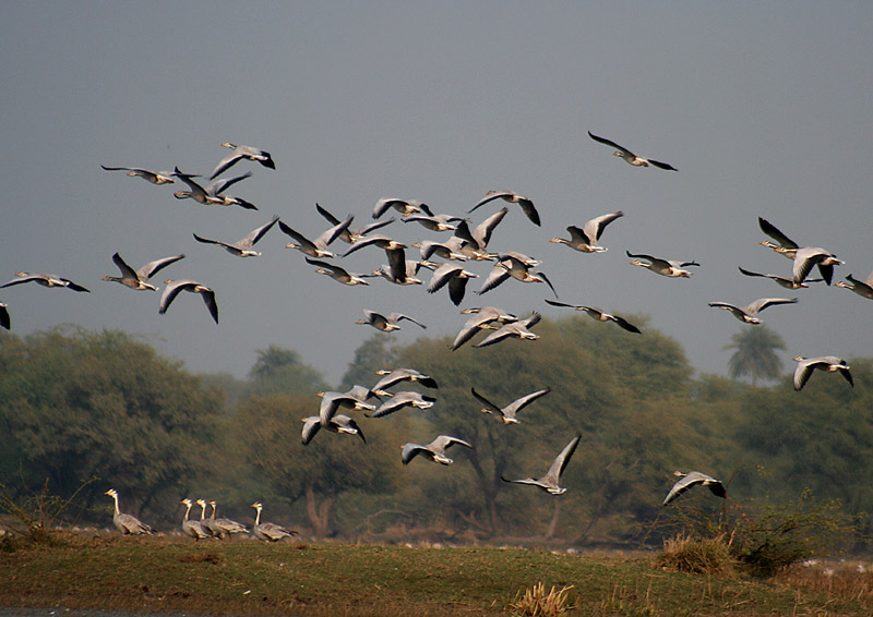 Bar-headed Goose (Anser indicus) in Bharatpur, Rajasthan, India.